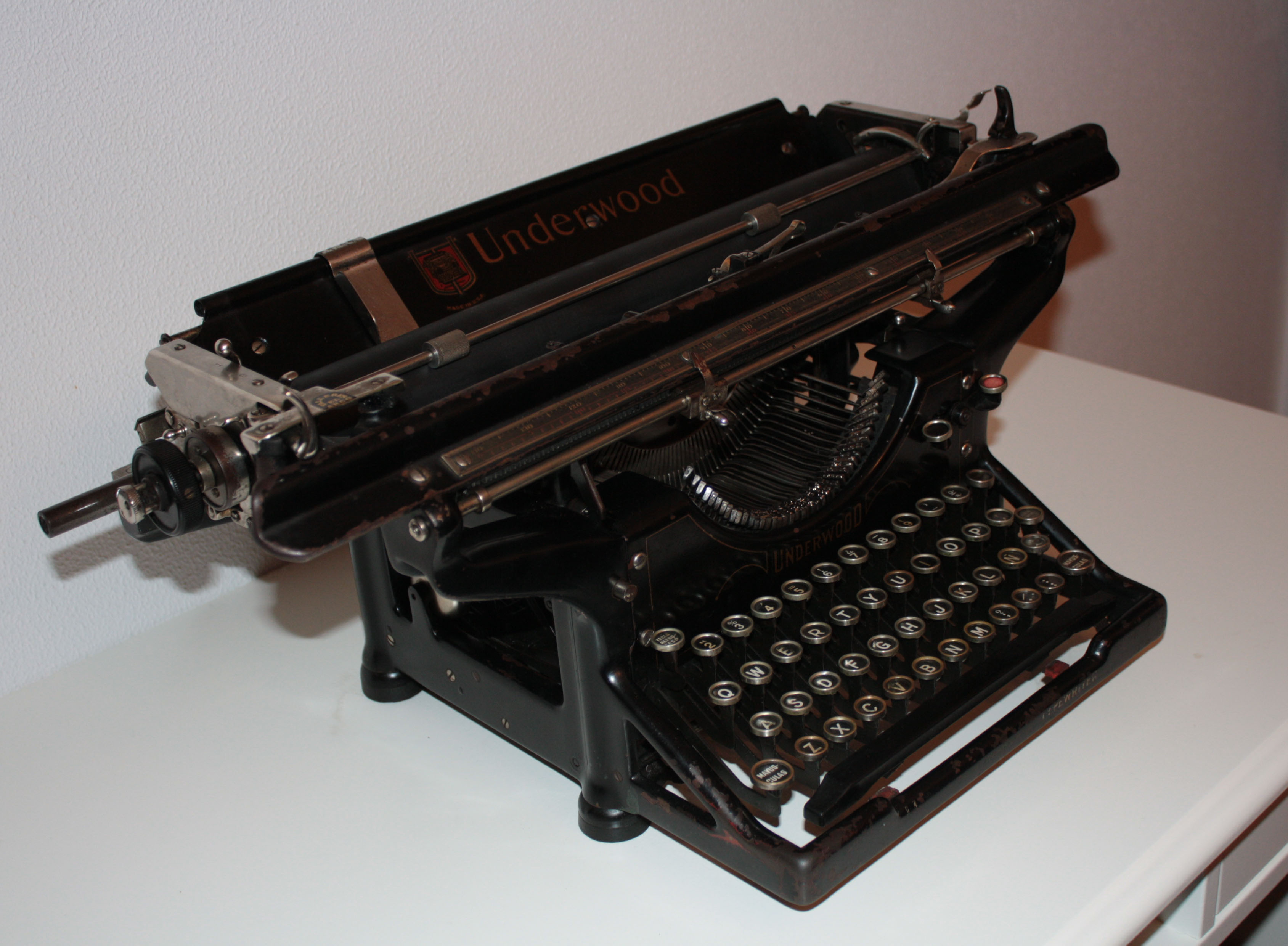 Underwood no. 3 typewriter with wide carriage and spanish keyboard. Made in Hartford, Connecticut, USA, between january and july 1929. Serial number 823336-16.